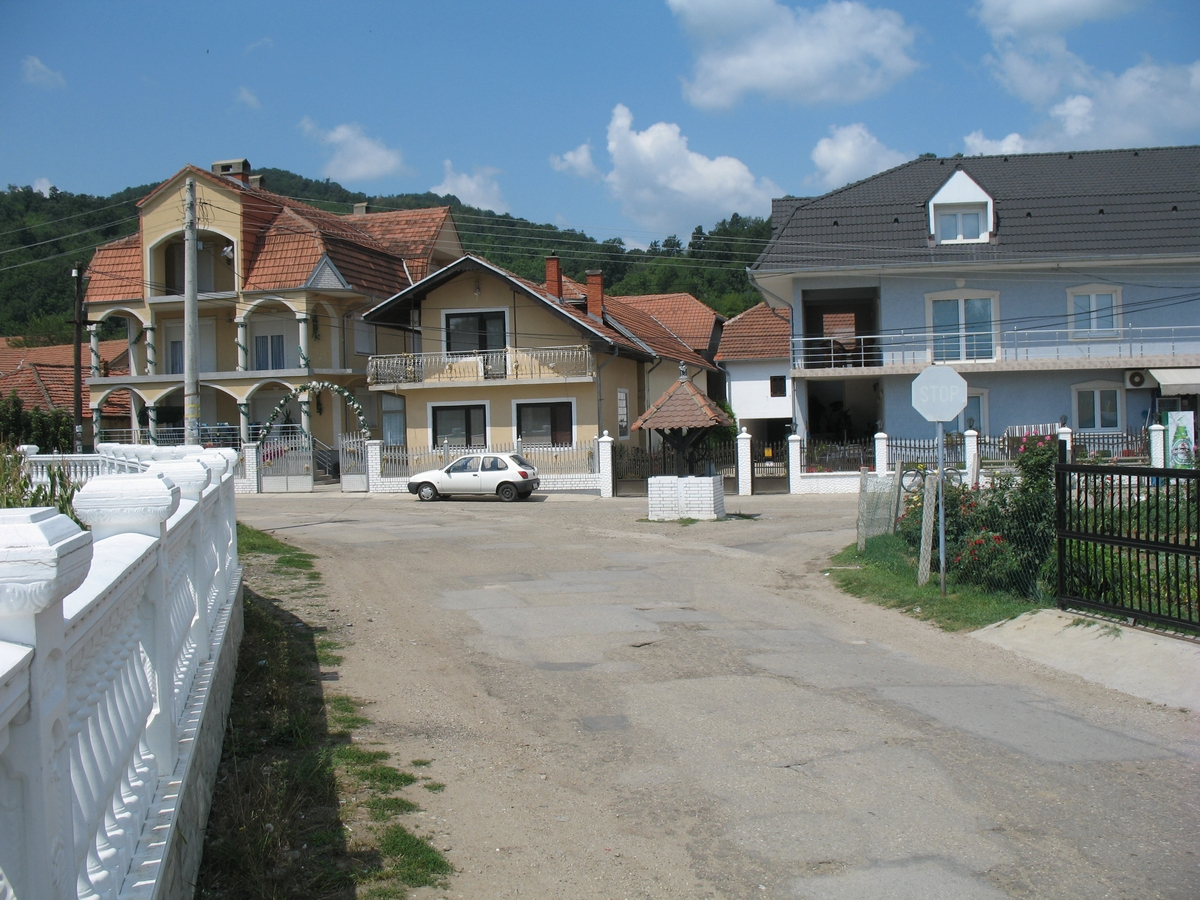 Urovica near Negotin, in Serbia